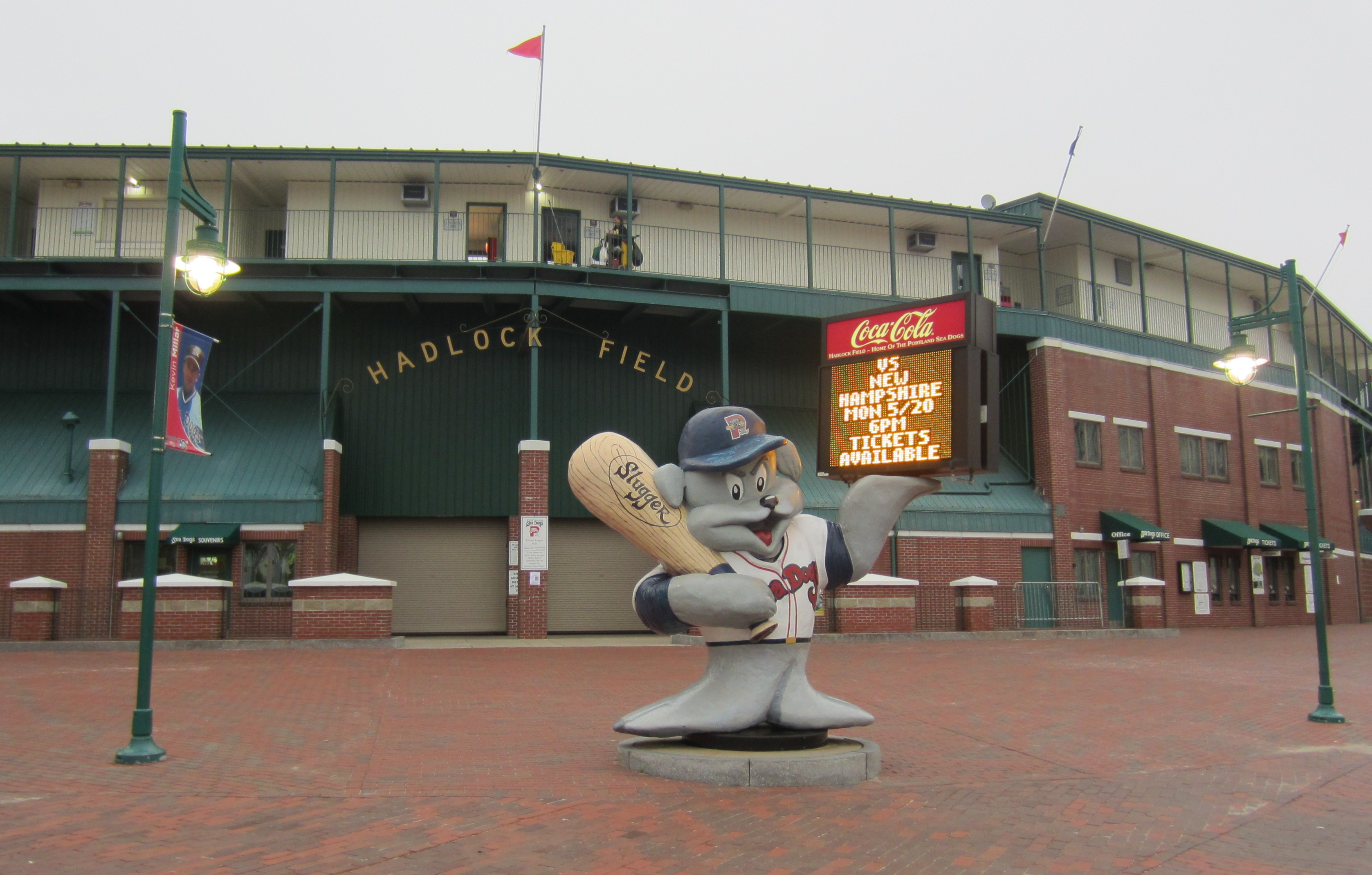 Entrance to Hadlock Field, home of the Sea Dogs.